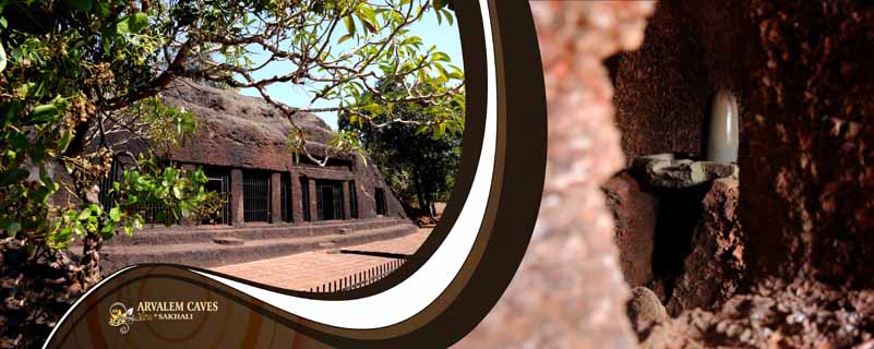 Collage of Photographs of a Goan Temple: Arvalem Caves, Goa